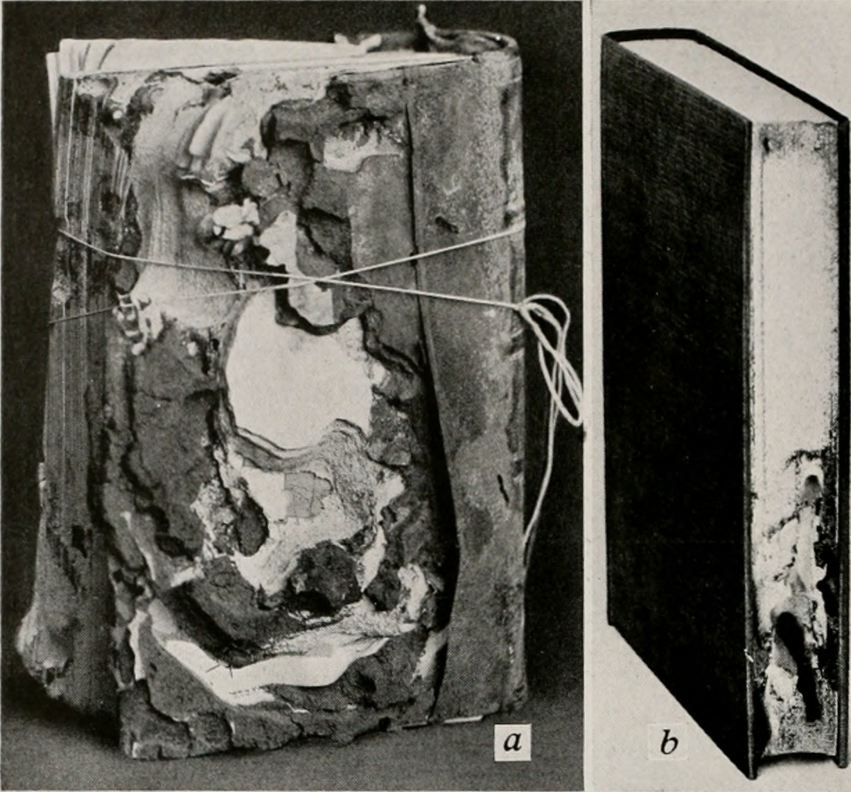 Title: Architect and engineer Year: 1905 (1900s) Authors: Subjects: Architecture Architecture Architecture Building Publisher: San Francisco : Architect and Engineer, Inc Text Appearing Before Image: ral are available, andof attack within the species confined toparticular pieces among many in compar-able exposures. Figure 14 shows a portionof a furniture store on the second floor ofa two-story brick building erected in 1888which illustrates the preference of termitesfor particular pieces of wood. Penetrate Redwood Floor The floor was covered by a thick woolcarpet with a heavy felt mat beneath it. Thefloor was of Douglas fir resting on a red-wood underfloor, and this in turn on Doug-las fir joists. Termite pellets were first no-ticed underneath an antique birch cabinet.Each time the cabinet was moved to sweepthe carpet, there would be a new pile ofpellets, and upon close examination holeswere seen through the wool carpet andsmall holes penetrating the \x4 Douglasfir flooring. Upon removing the carpet andlx4 finish flooring, holes were observedpenetrating the redwood subfloor. Uponremoving the subfloor, there were holes THE ARCHITECT AND ENGINEER ^ 37 ► MARCH, NINETEEN THIRTY-FOUR Text Appearing After Image: Fig. 11—Books from the shelves of a Los Angeles bookstore destroyed bythe ground dwelling termites. The lack of intellectual progress in the tropicshas been correlated by some writers with the rapid destruction by termites ofprinted or written records.